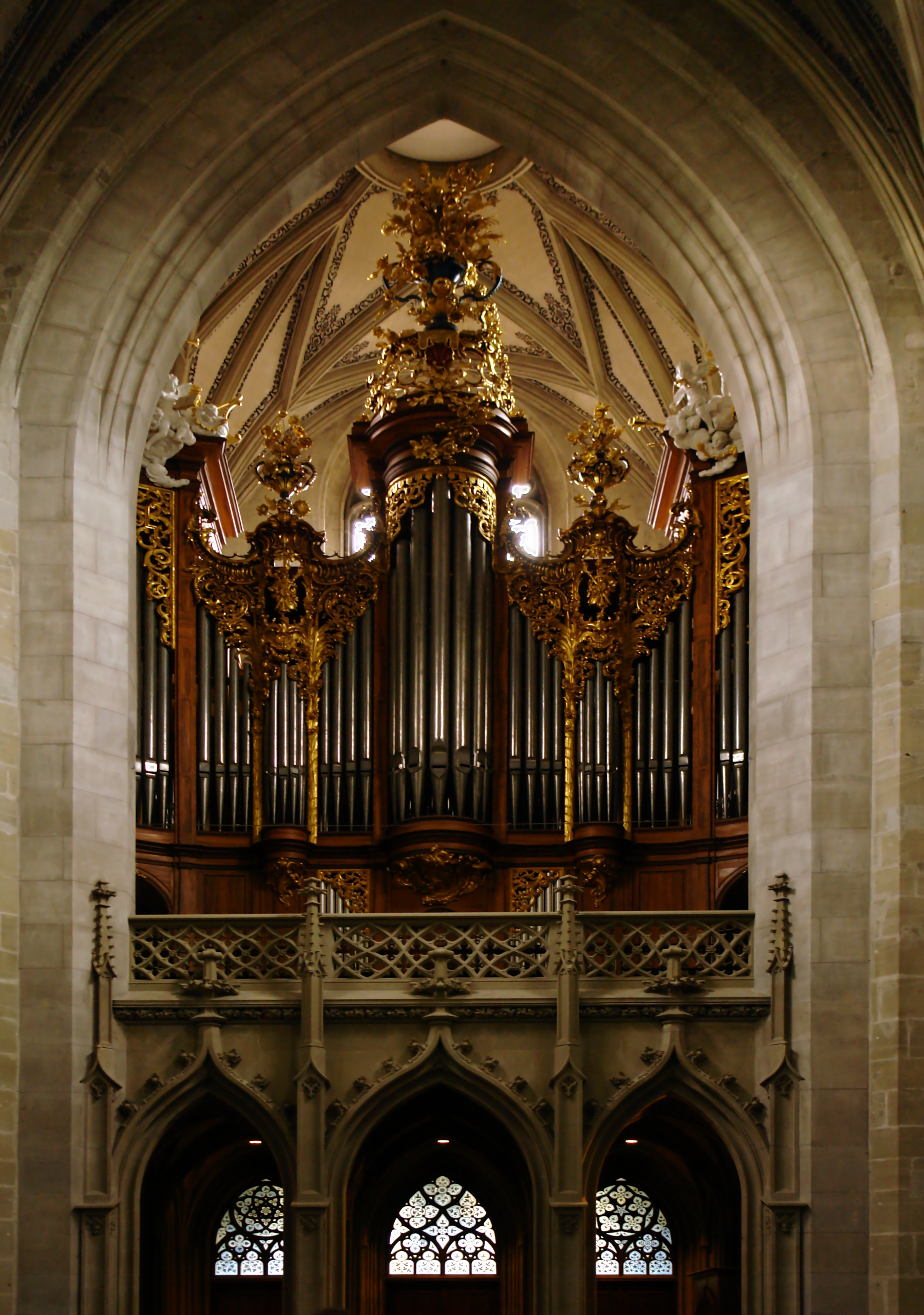 Berne cathedral organ, Switzerland.